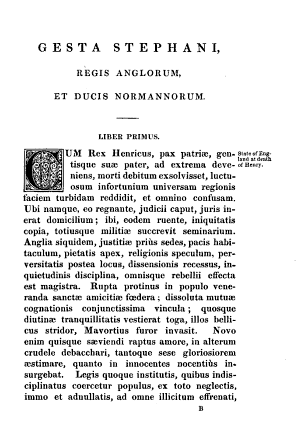 The first page of the Chronicle «Gesta Stephani regis Anglorum, et ducis Normannorum», 12th century, from a printed copy published by Richard Clarke Sewell in 1846